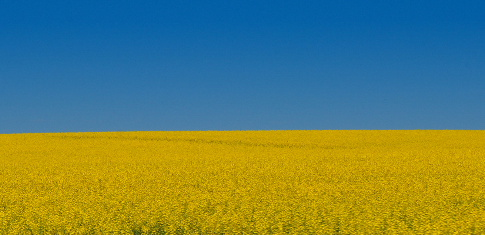 Rapeseed field in Canada – "Shot from a speeding vehicle! This pretty much sums it up!"